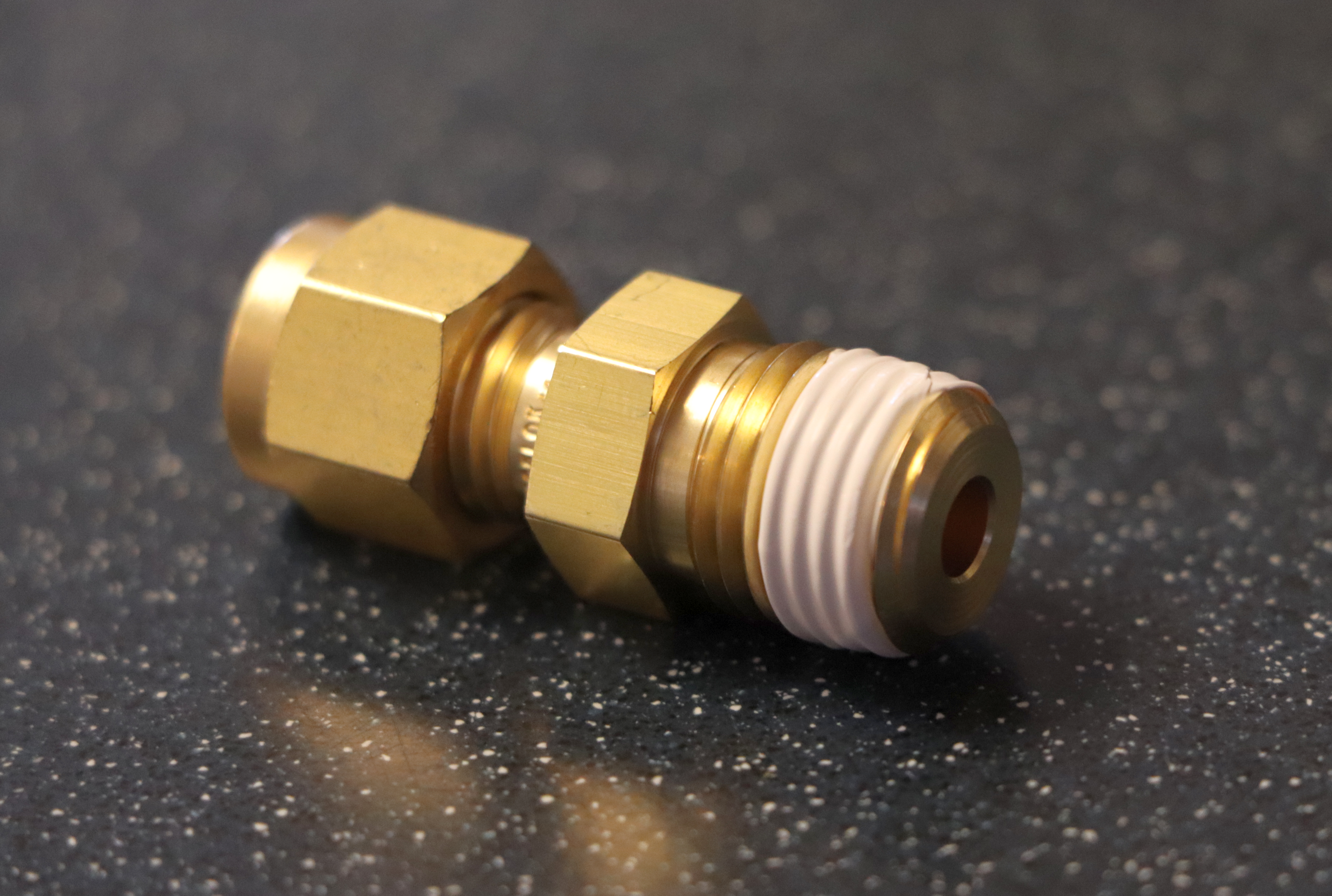 Brass Swagelok tube fitting to male NPT, with PTFE tape applied (both ends are -4, which means for quarter inch tube). Approximately two wraps of the tape was wrapped in the direction of the threads.